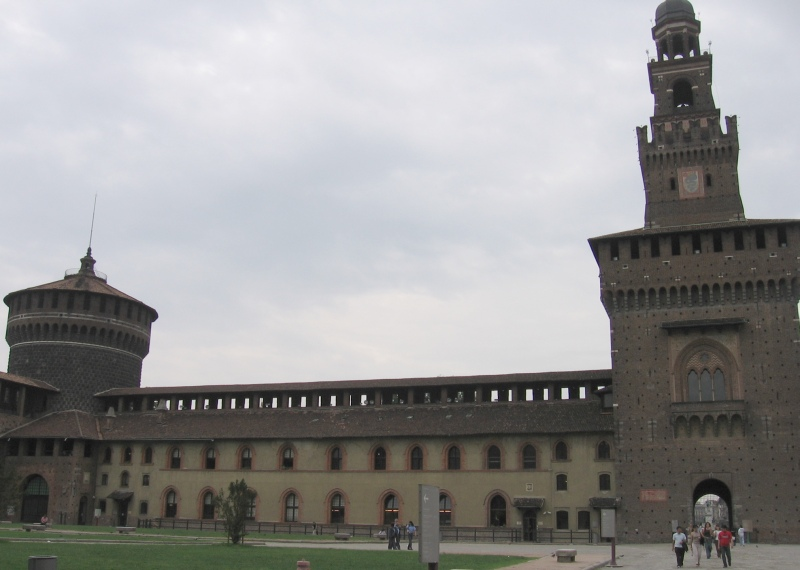 Main court of Castello Sforzesco, Milan, Italy. September 2005 on the left you see one of the two water towers